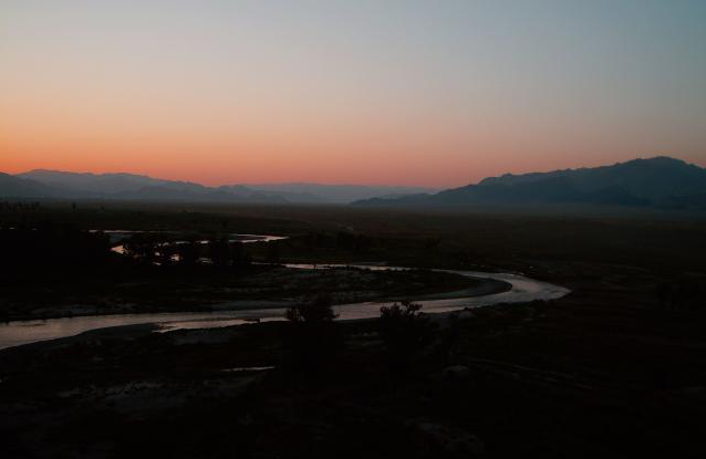 Bulgan Gol river (Urungu)